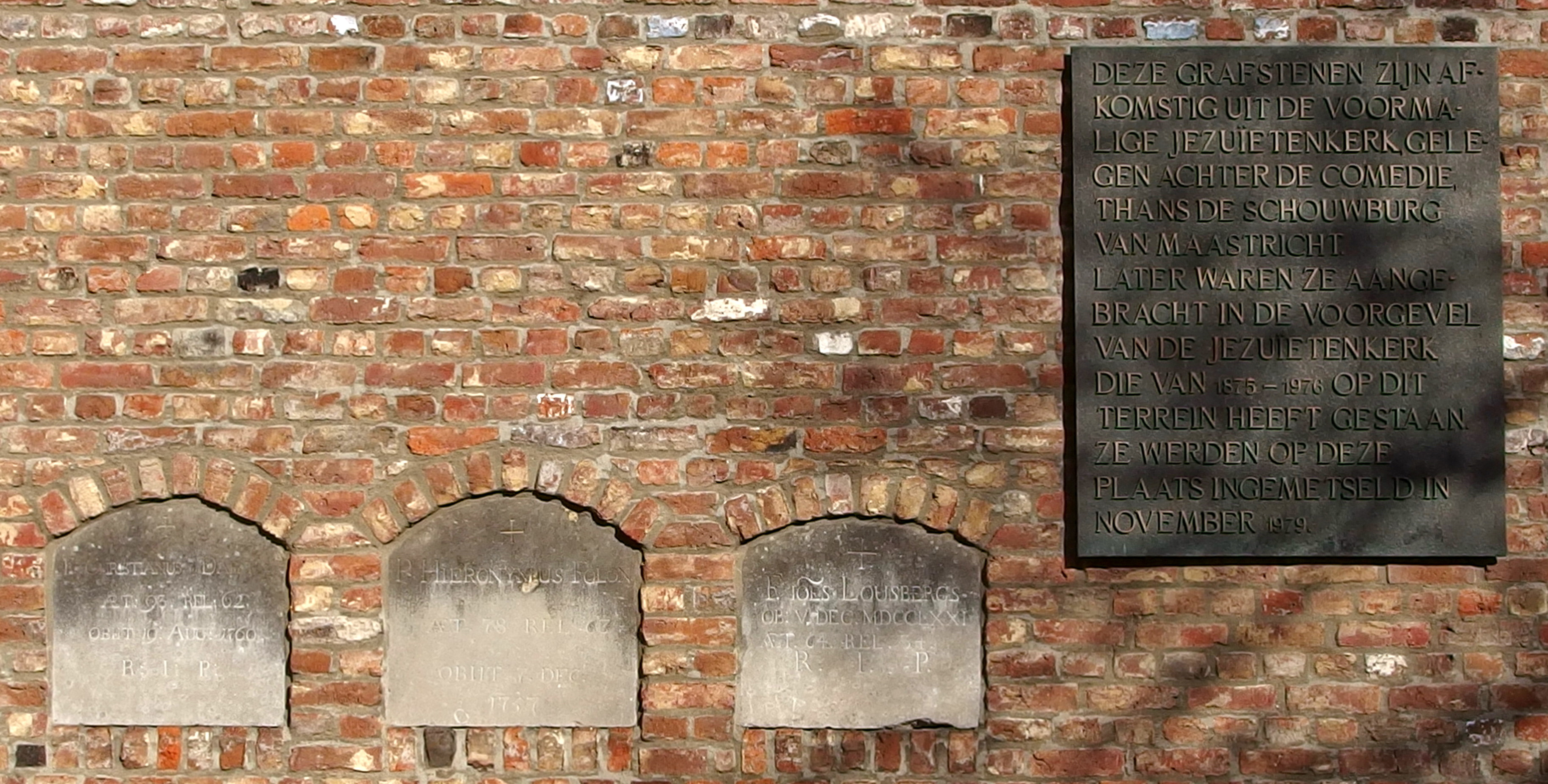 2015-03-12 in Maastricht; Gravestones of former Jezuietenkerk at terrain Jezuietenklooster at Tongersestraat.